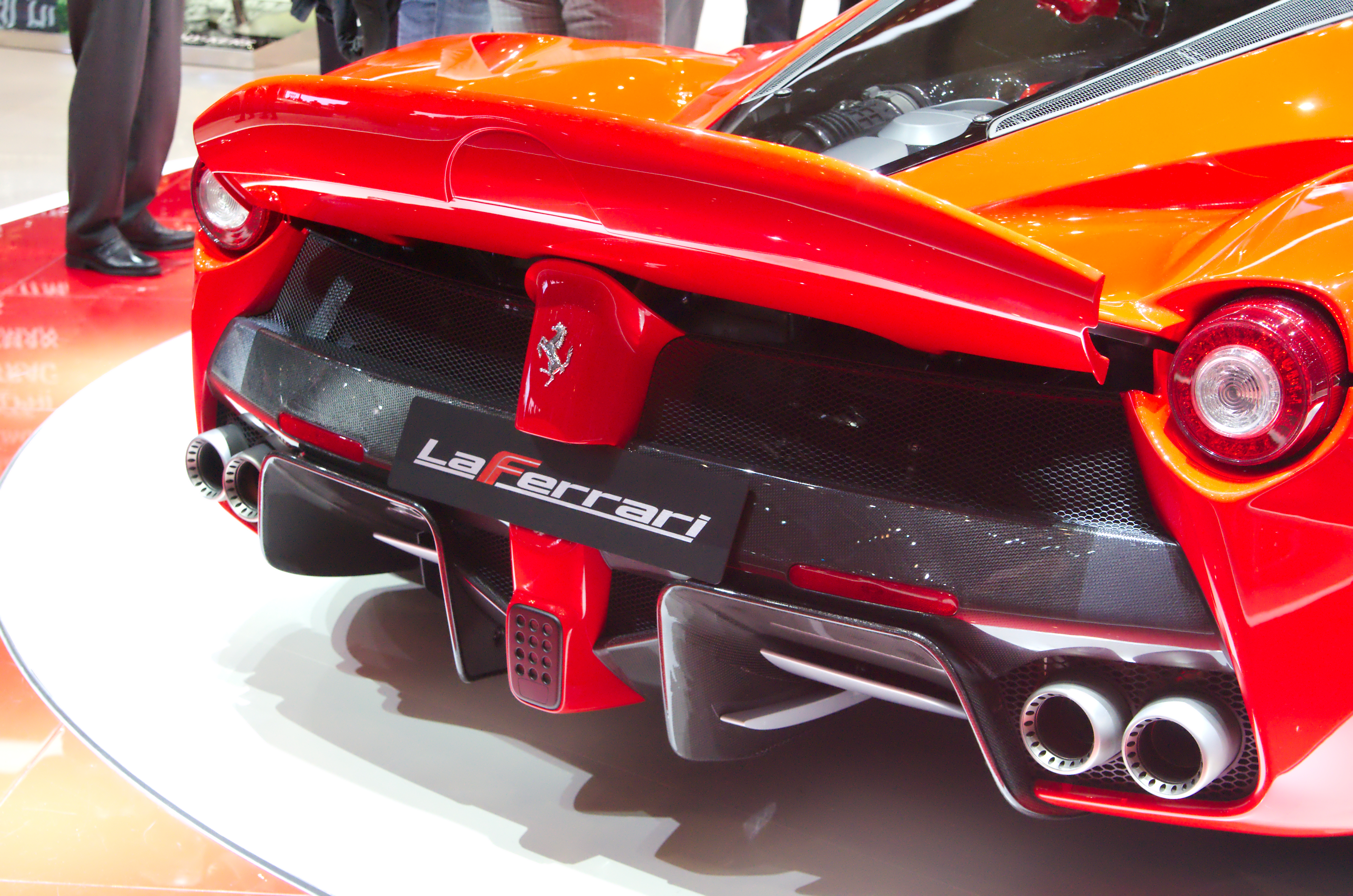 Geneva MotorShow 2013 - Ferrari LaFerrari rear